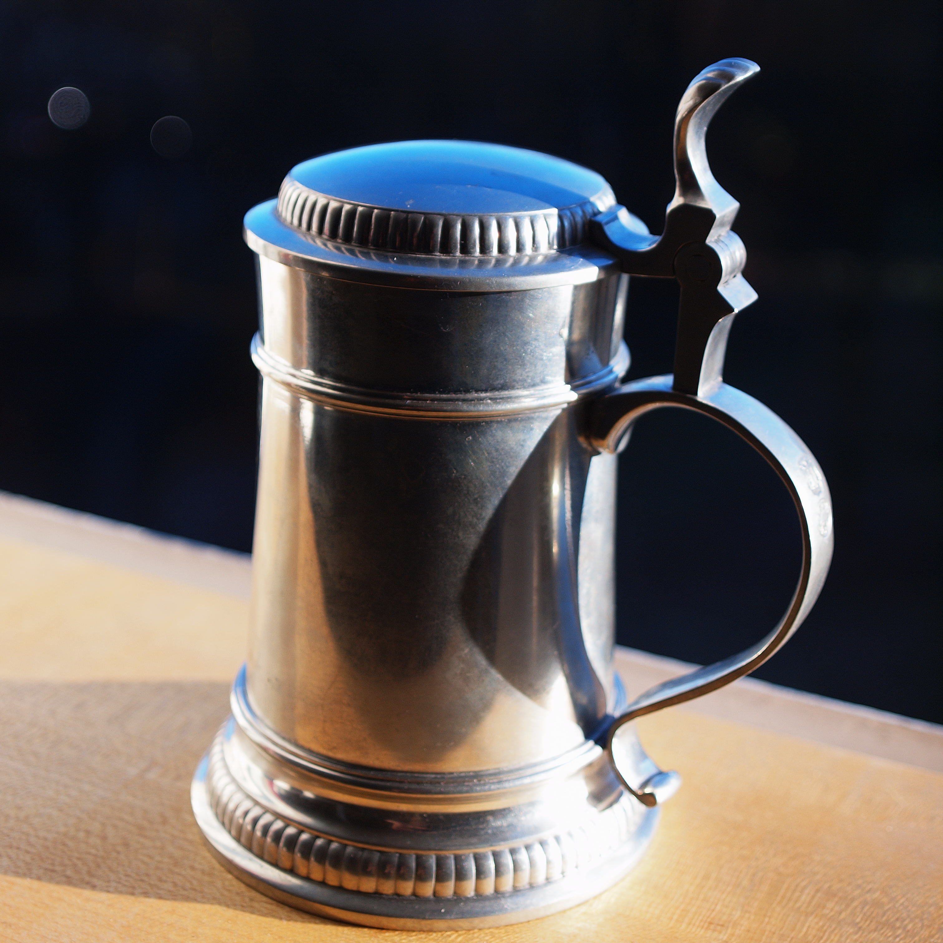 Gesellenstück P. Cikovac L. Mory GmbH